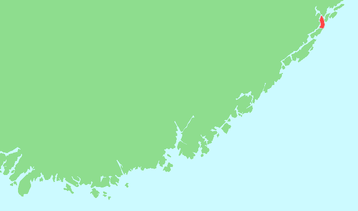 Locator map of Tverrdalsøya, Aust-Agder, Norway